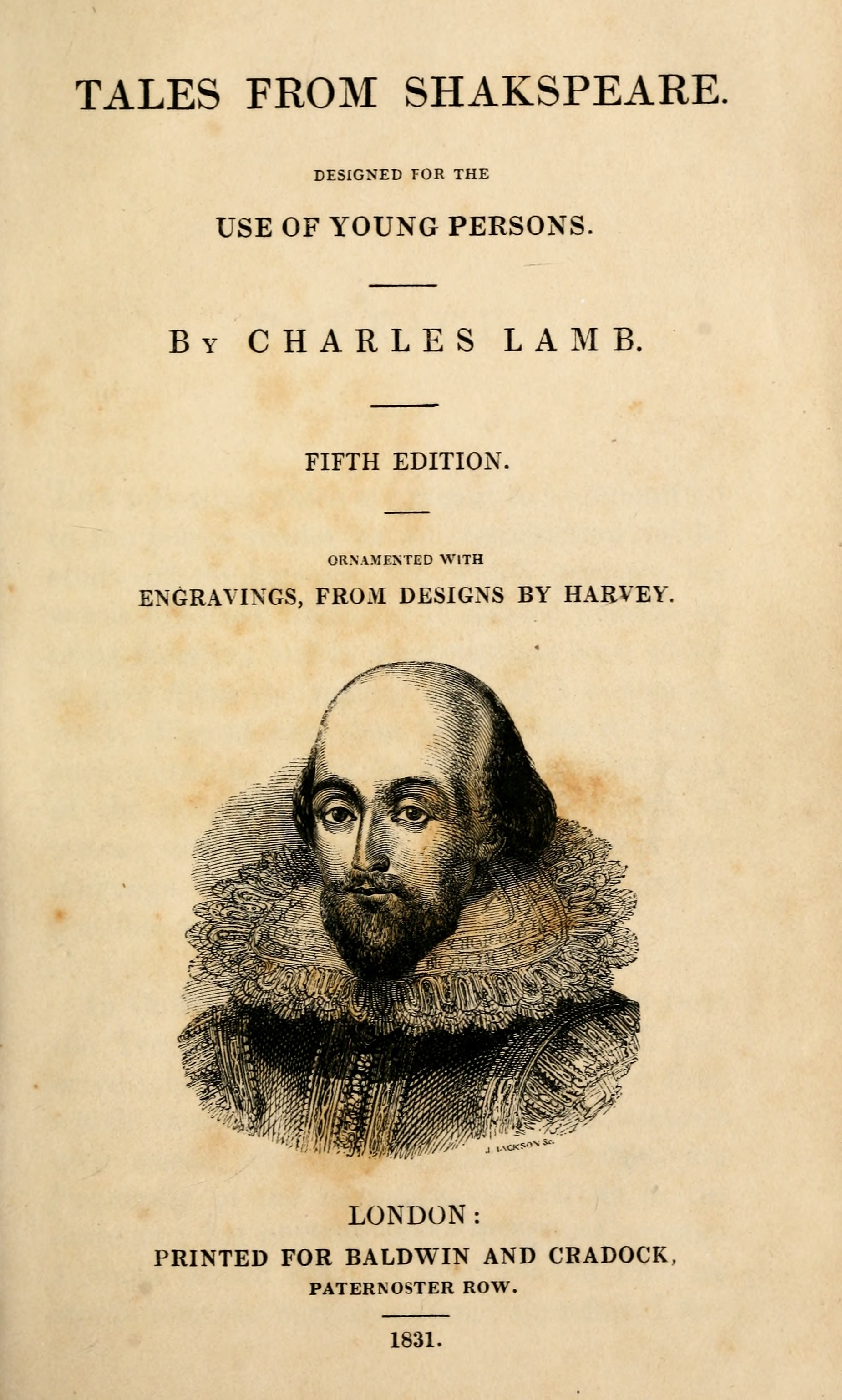 Title page of Tales from Shakspeare, 5th ed. (1831) by Charles and Mary Lamb.